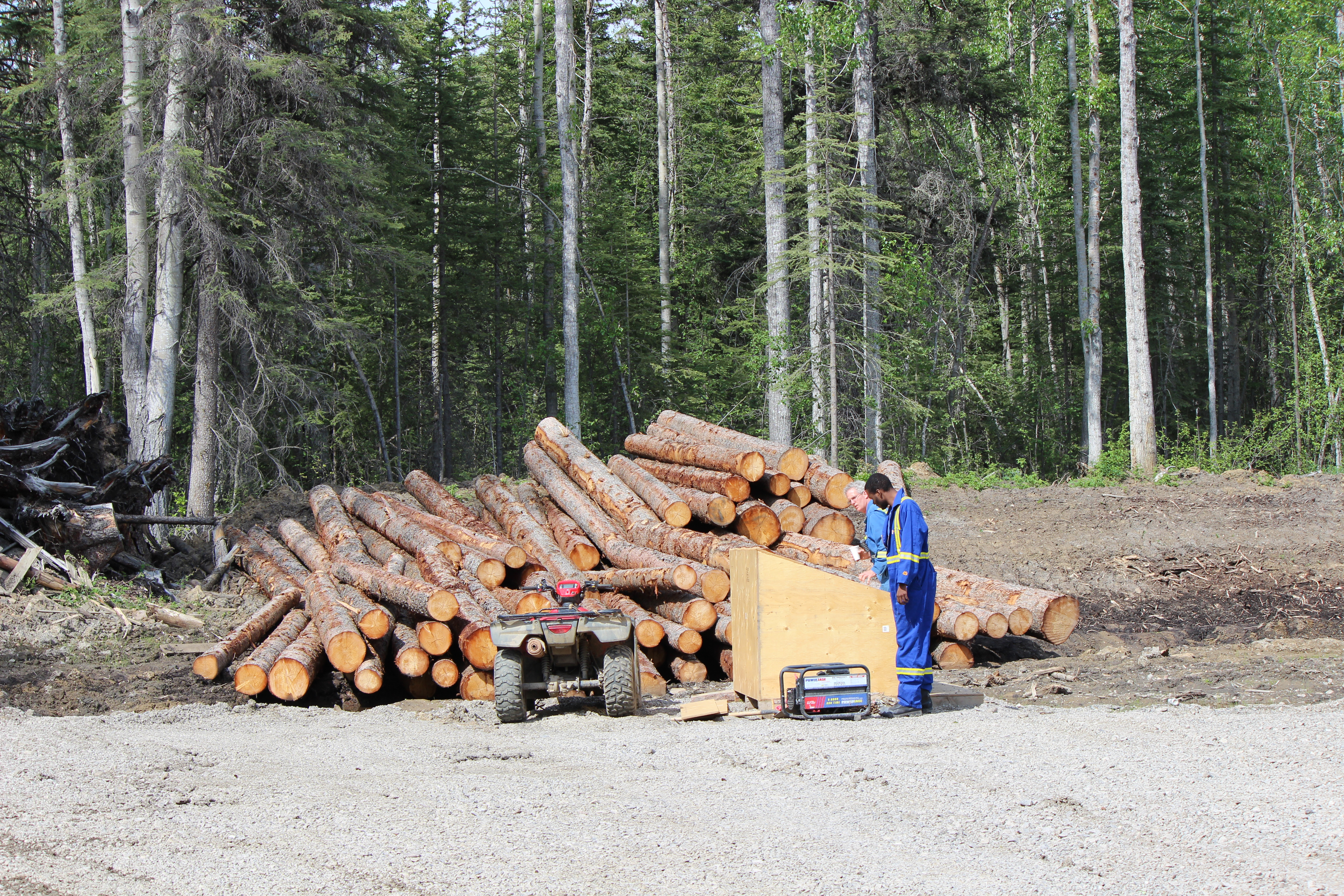 FN forestry